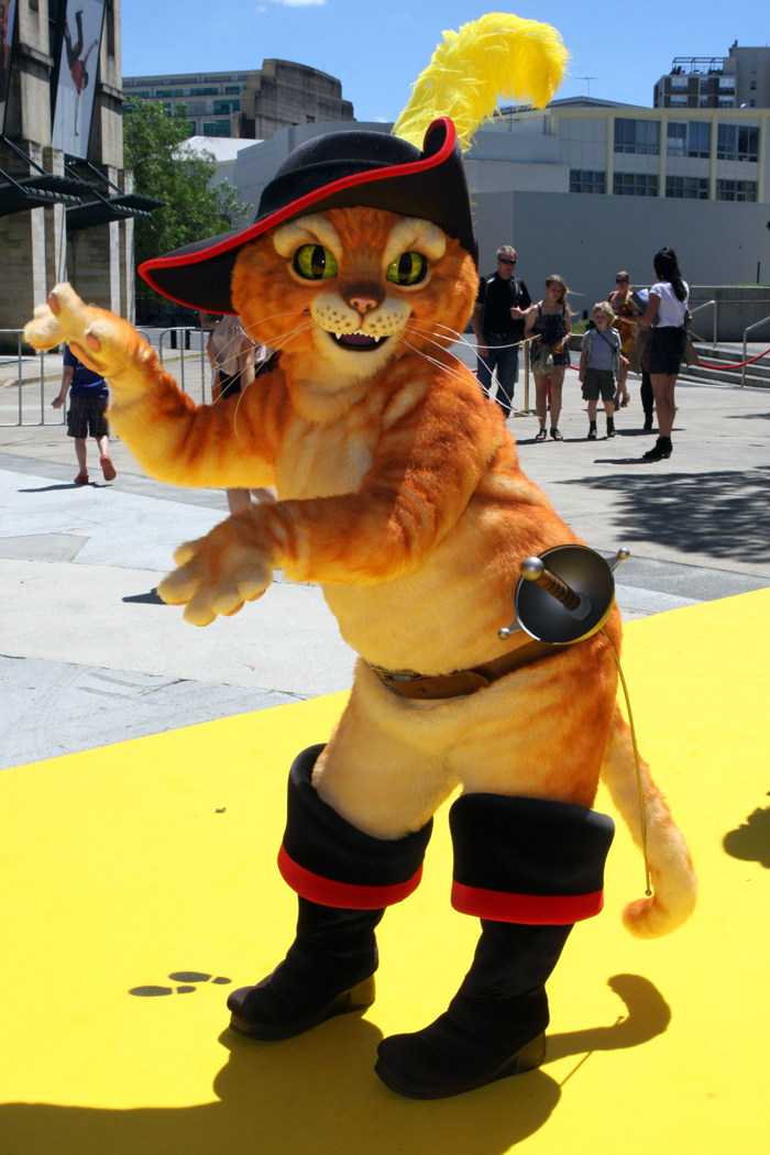 Puss in Boots mascot at Puss in Boots premiere at Moore Park, Fox Studios in Sydney, Australia.